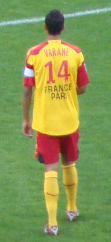 Varane (Lens captain)